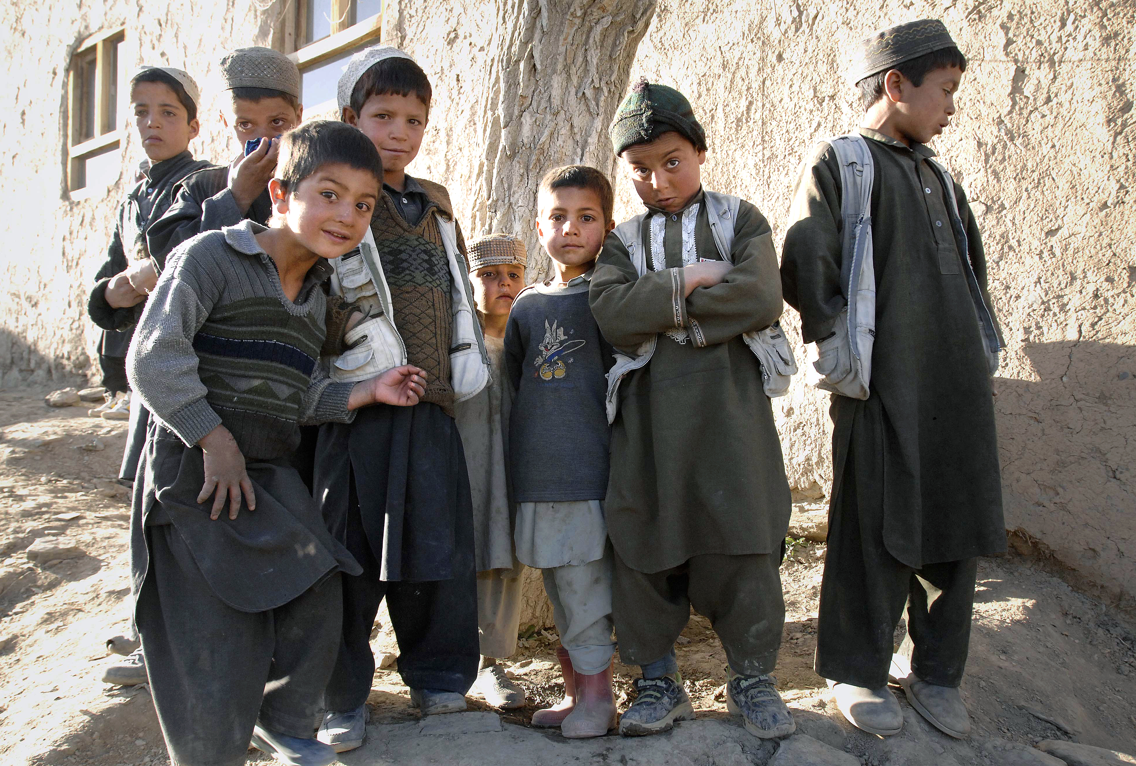 A group of kids ham it up for the camera in a small village just outside of combat outpost Apache in the Jalrez Valley in Wardak province, Afghanistan, March 12, 2009. The newly emplaced outpost occupied by soldiers assigned to the 2nd Battalion, 87th Infantry Regiment is helping to fund renovations to the nearby school.